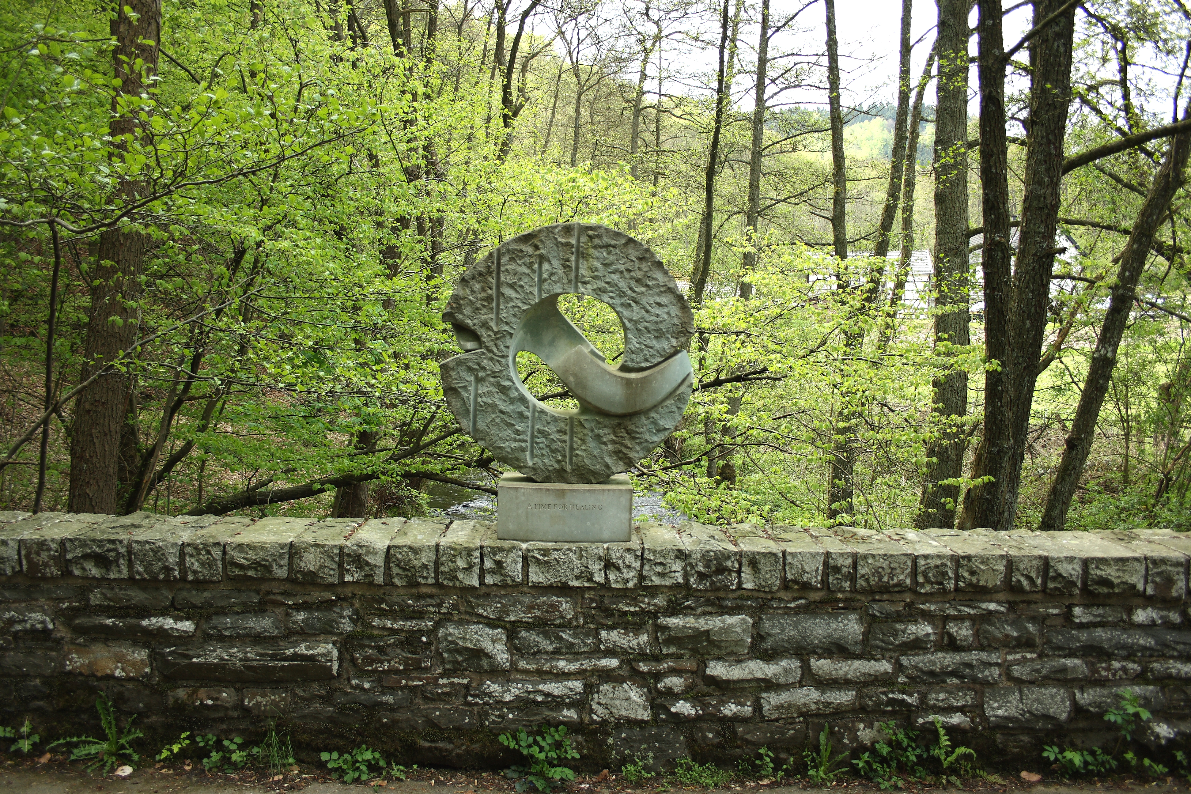 Memorial Sculpture "A Time For Healing", Hürtgenwald, Germany.